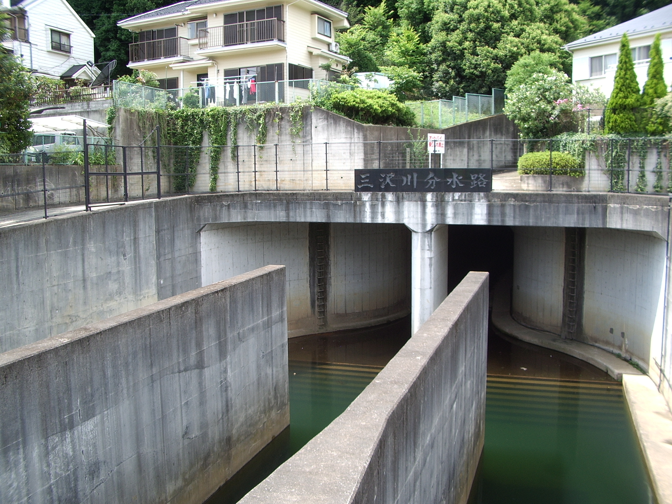 Misawagawa sub canal, Sakahama, Inagi, Tokyo